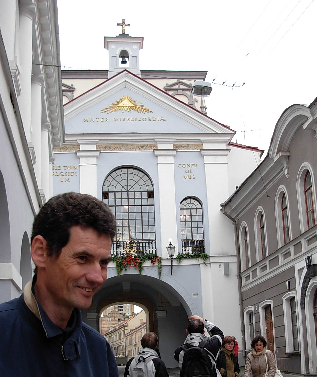 Arūnas Degutis, near Gate of Dawn, Vilnius.